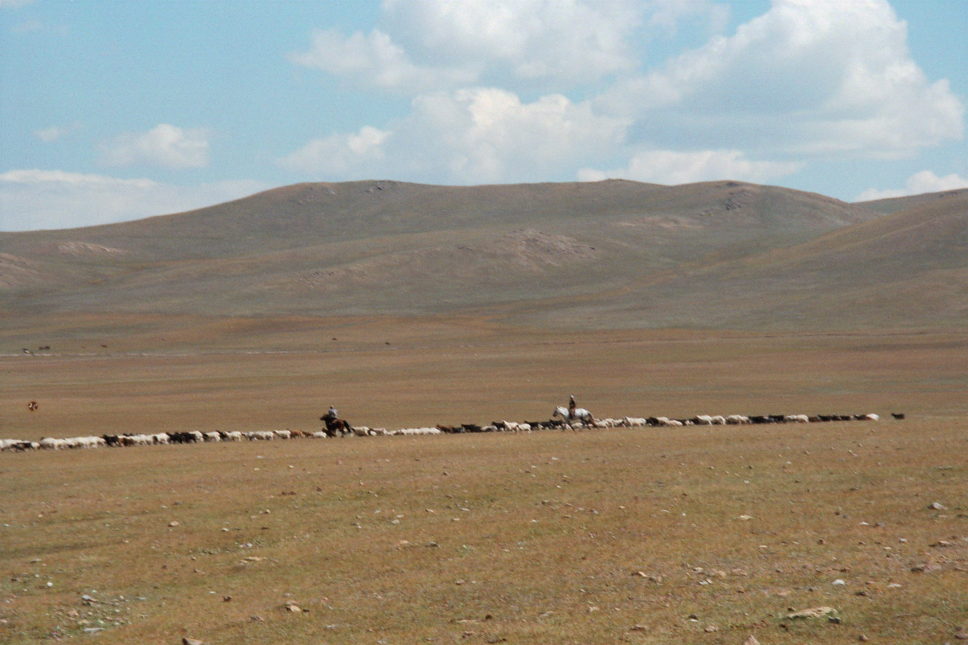 Mongolia is the real country of the cow-boys. Every of their moves and the way they are remind us of the old american westerns. But mongolian herding techniques are different from those of the cowboys of North America. Long sticks looped with rope are used instead of lassos, and once the livestock is separated from the herd, the herdsmen will often work from the ground, rather than their horse.